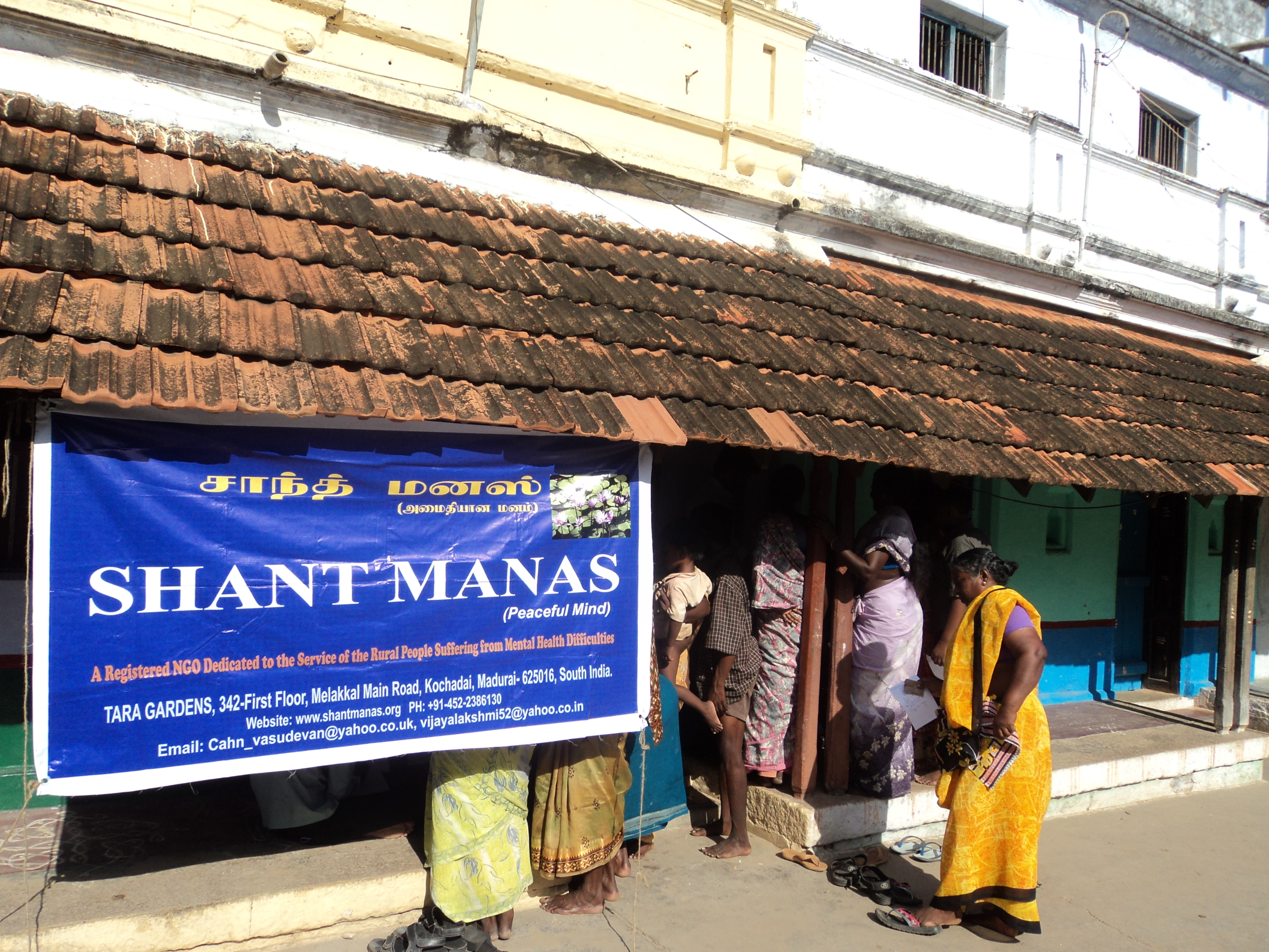 A field clinic held by Shantmanas in the community.